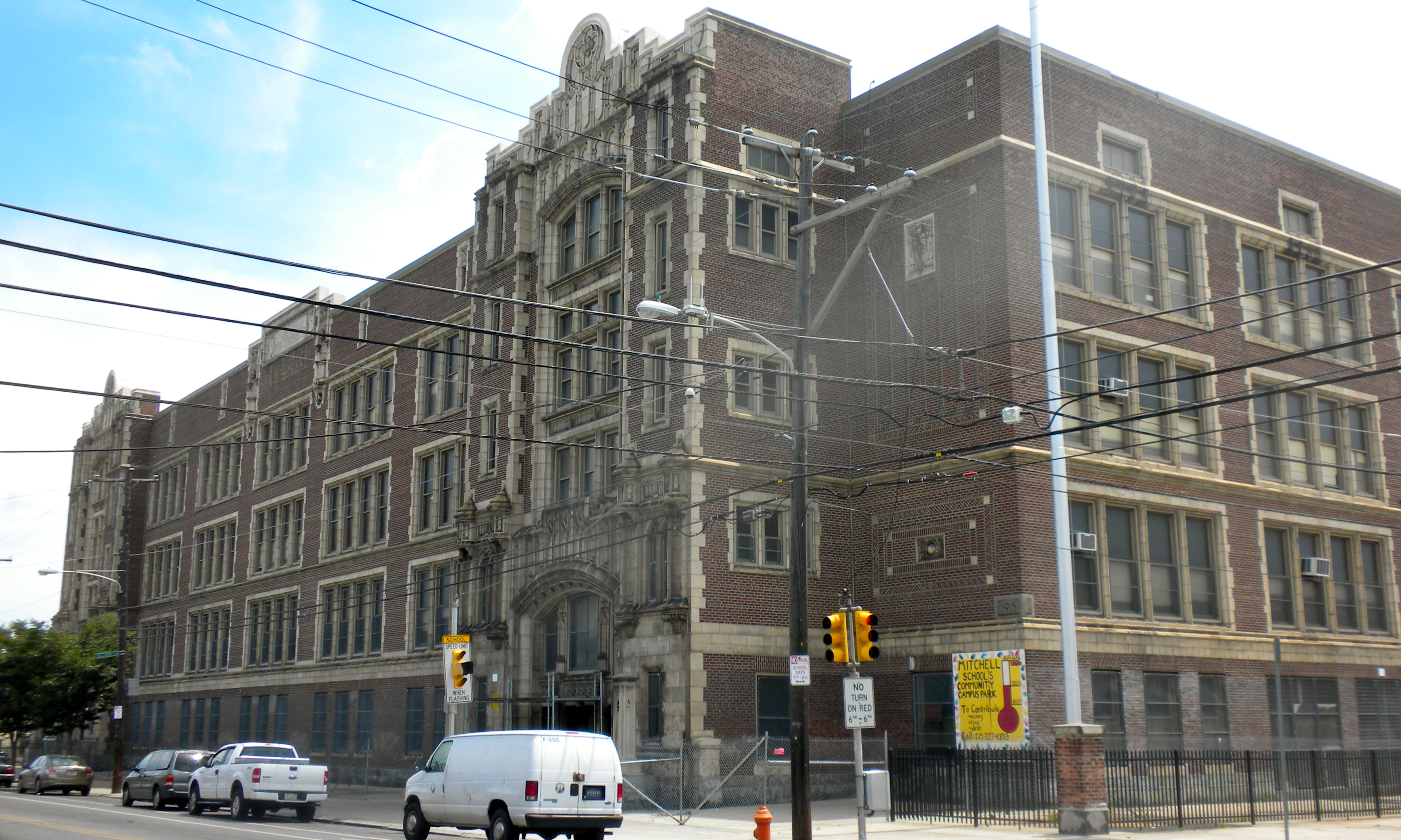 S. Weir Mitchell School in SW Philadelphia on the NRHP since December 4, 1986. At 5500 Kingsessing Avenue in the Kingsessing neighborhood